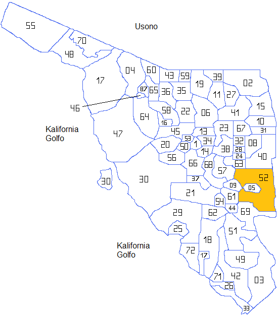 locator map of Sonora